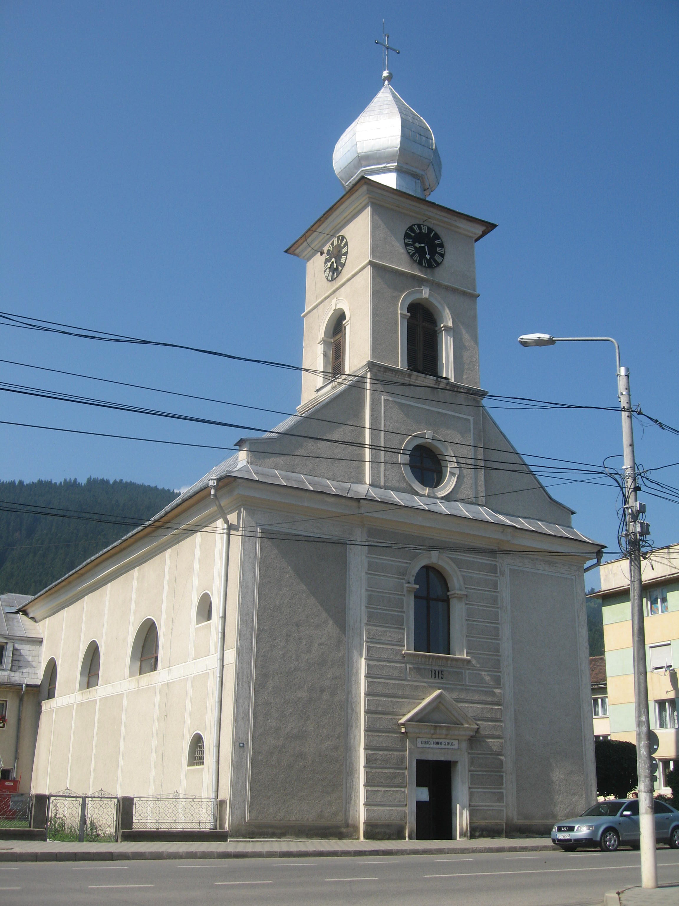 The Roman-Catholic Church in Câmpulung Moldovenesc, Romania